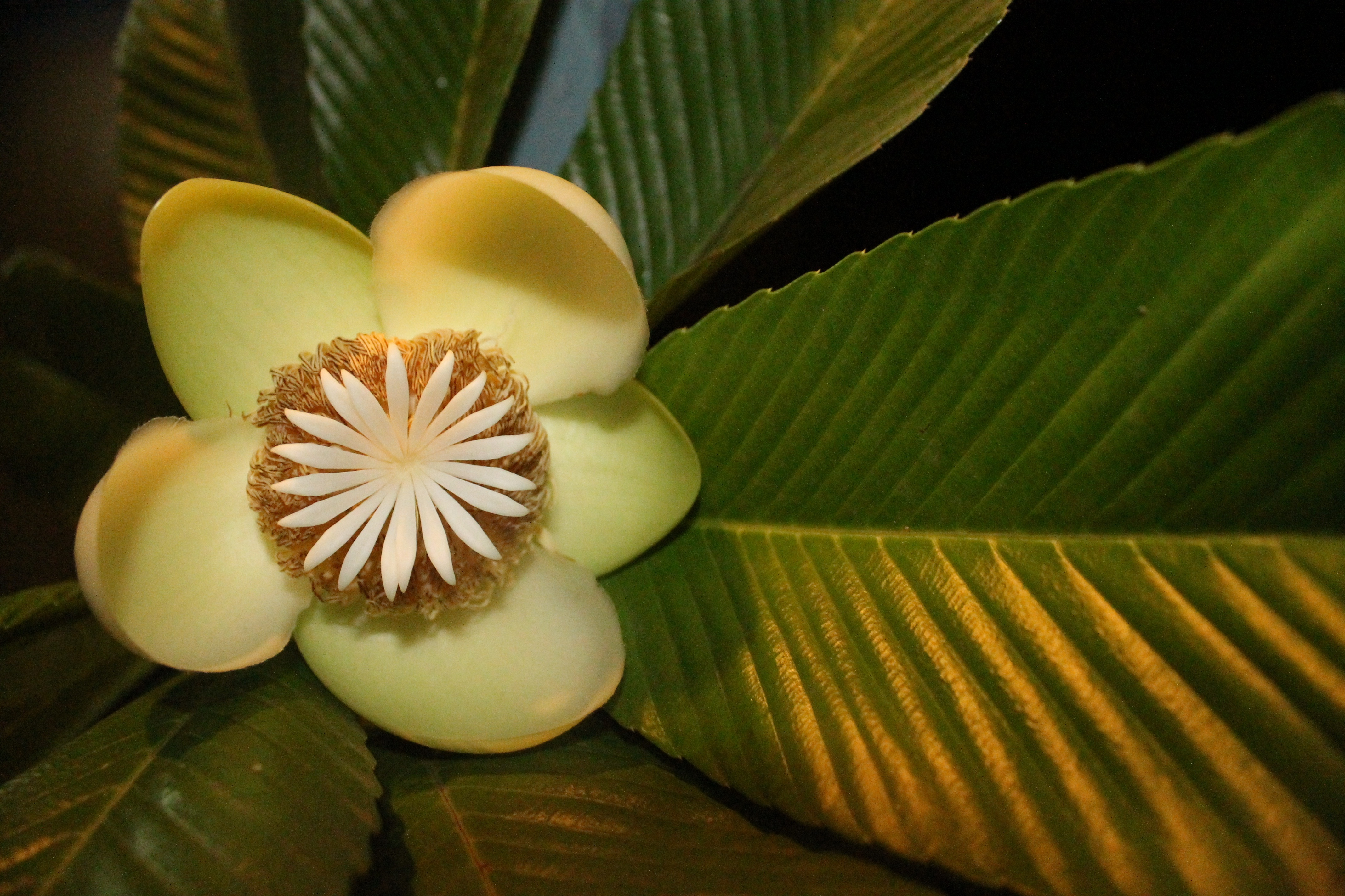 Dillenia indica Flower in night